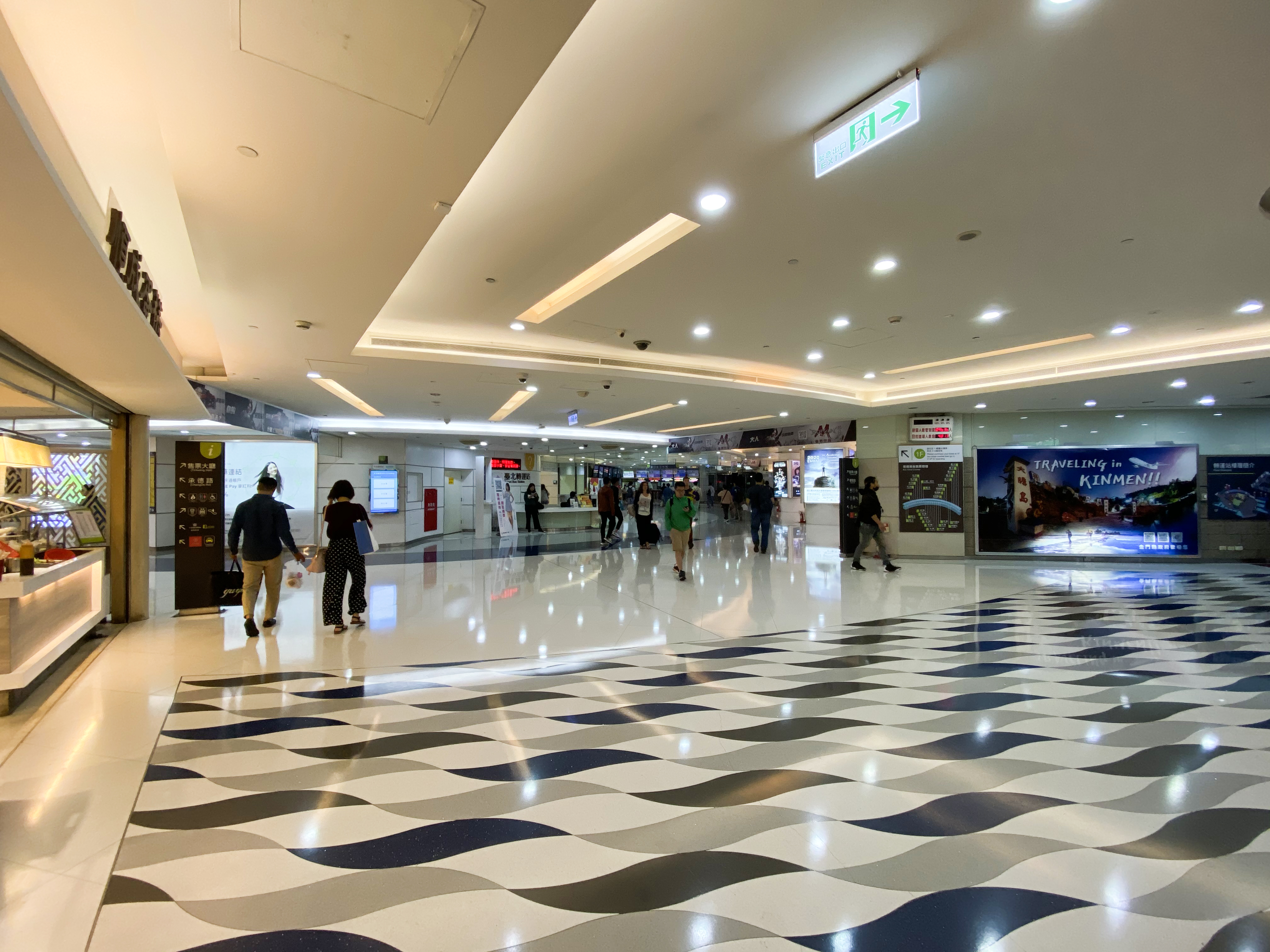 Taipei Bus Station Level 1 lobby